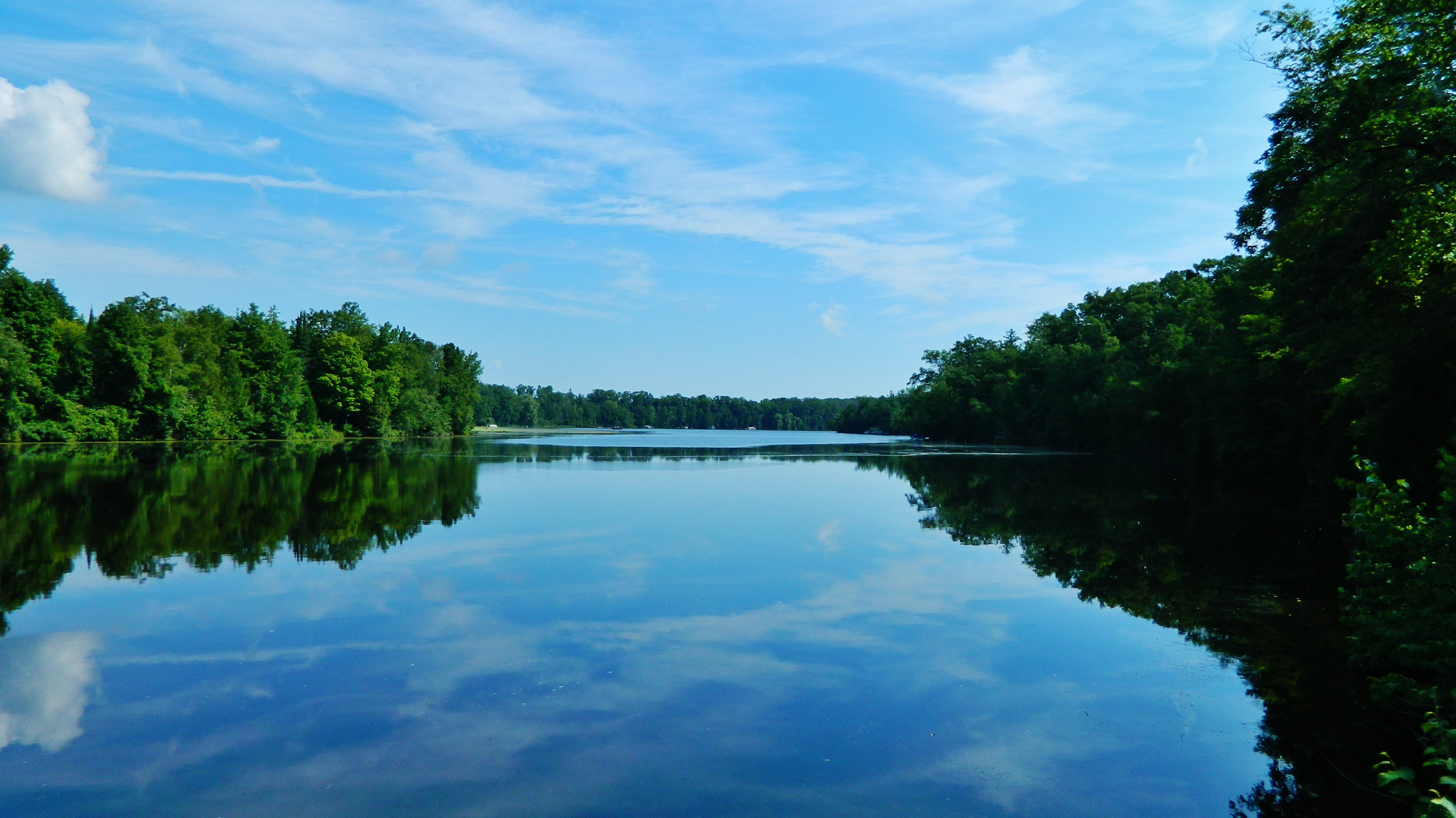 A view of the Peshtigo River in Northeast Wisconsin on a sunny August morning. Looking Northeast, downstream from the municipality of Stephenson.